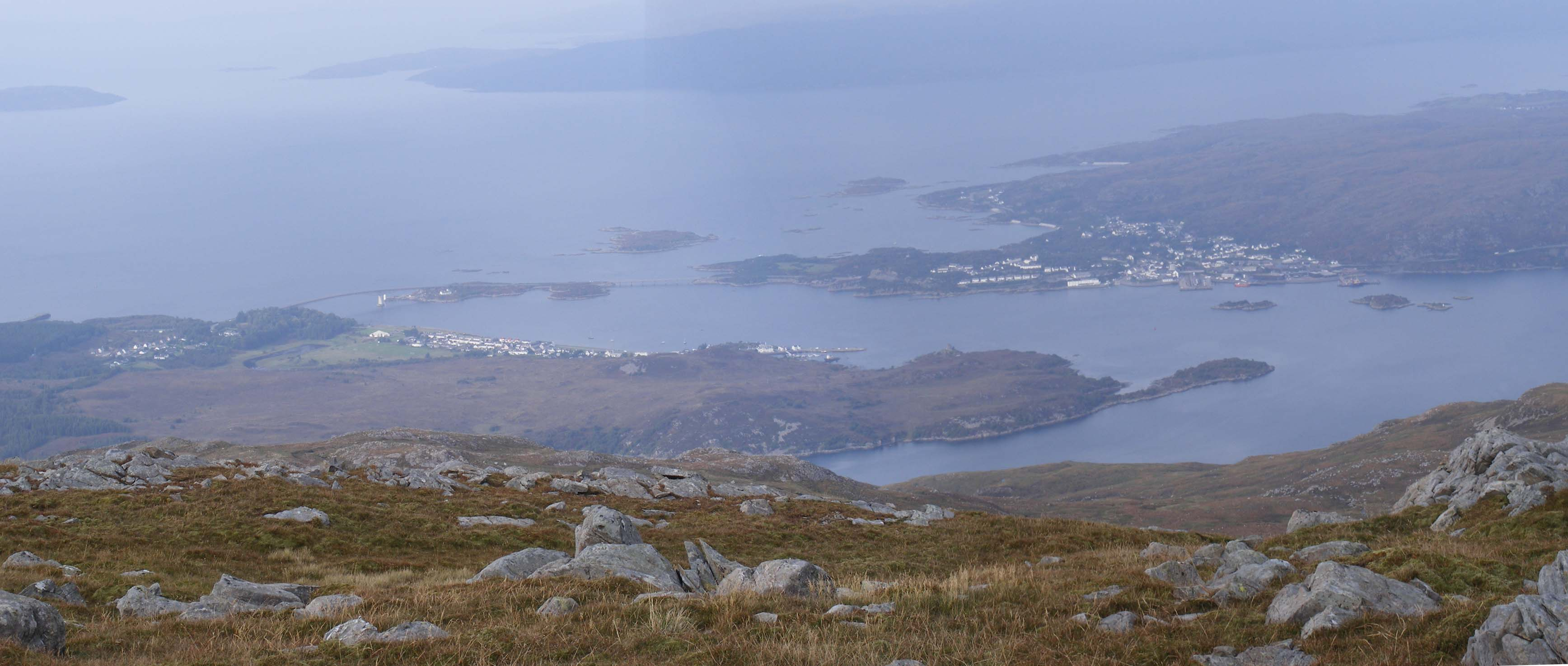 Kyleakin, the Skye Bridge and Kyle of Lochalsh, seen from the summit of Sgurr na Coinnich